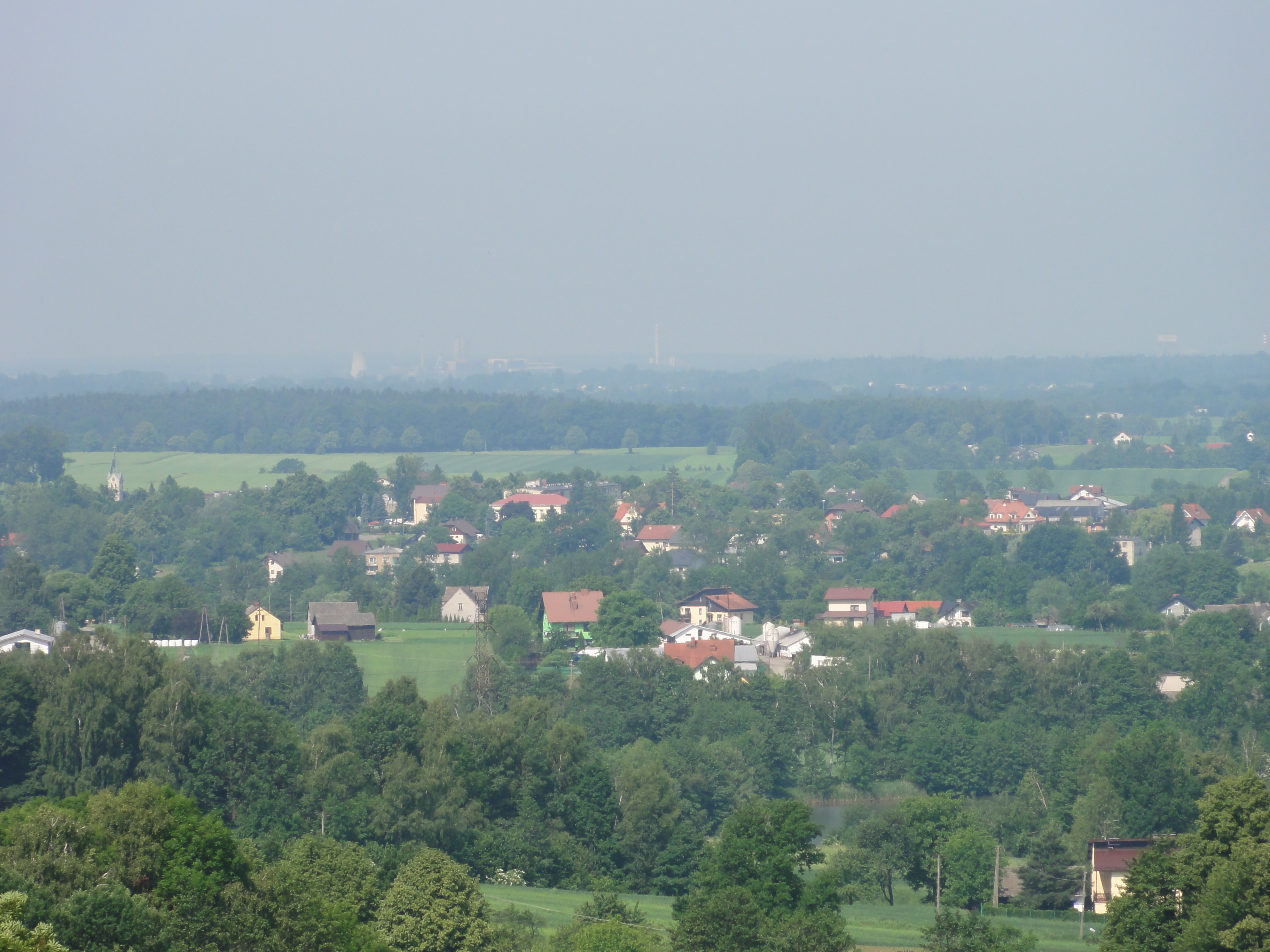 View from Simoradz towards Dębowiec